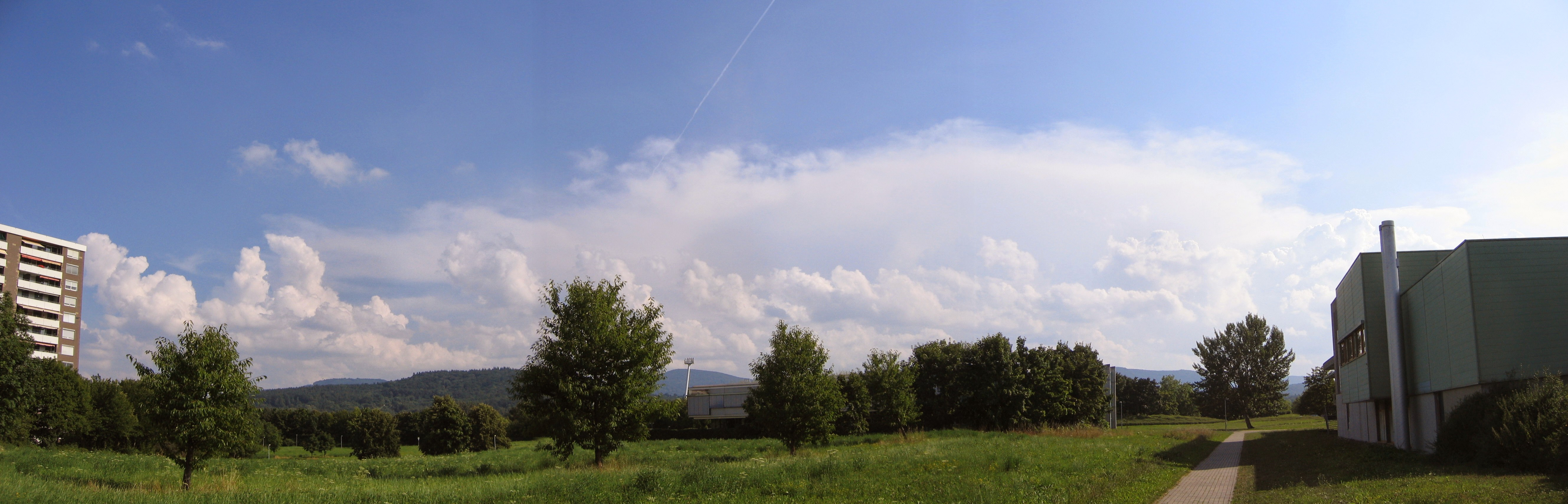 Hohbuch